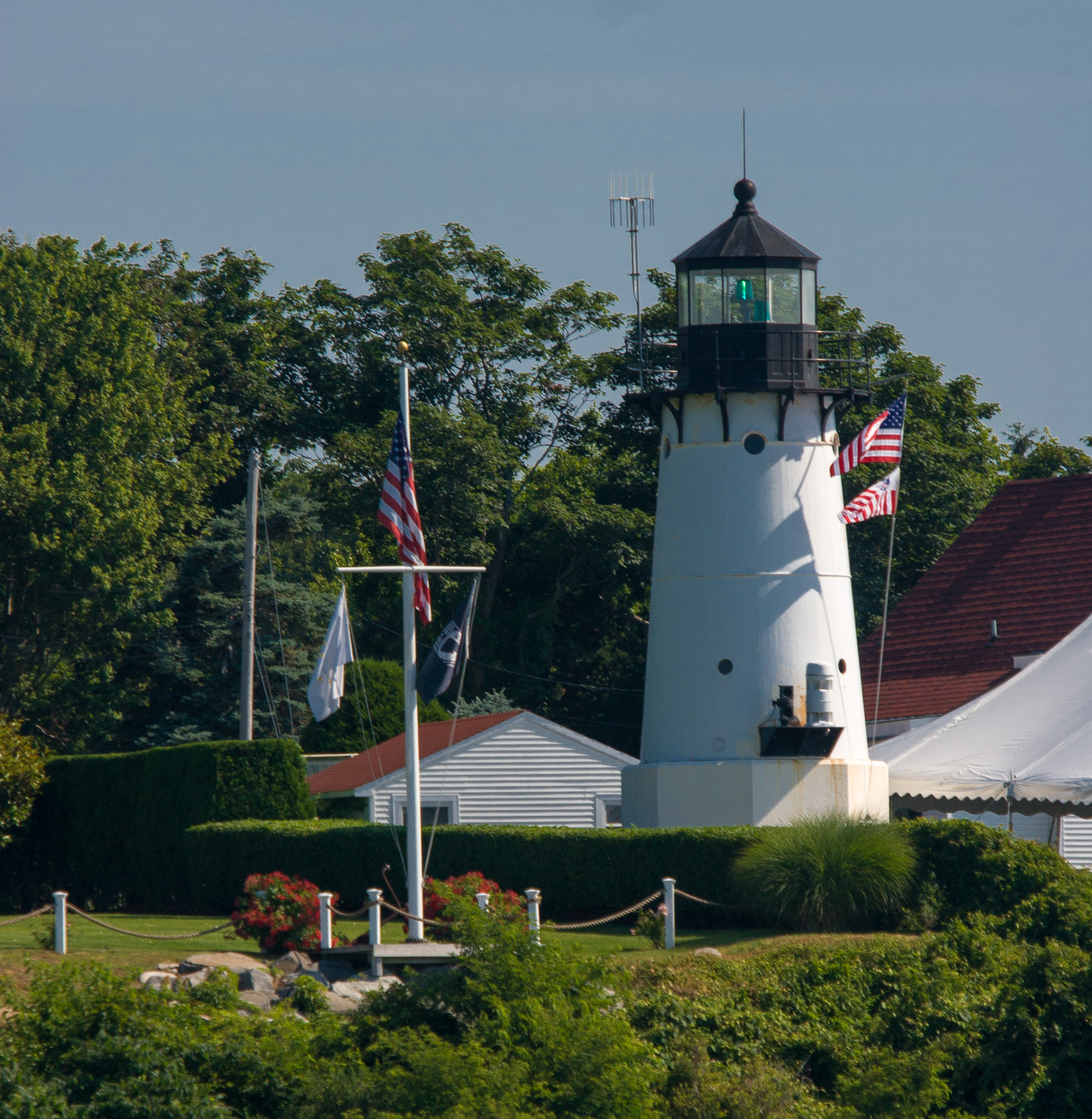 Warwick Lighthouse viewed from the water